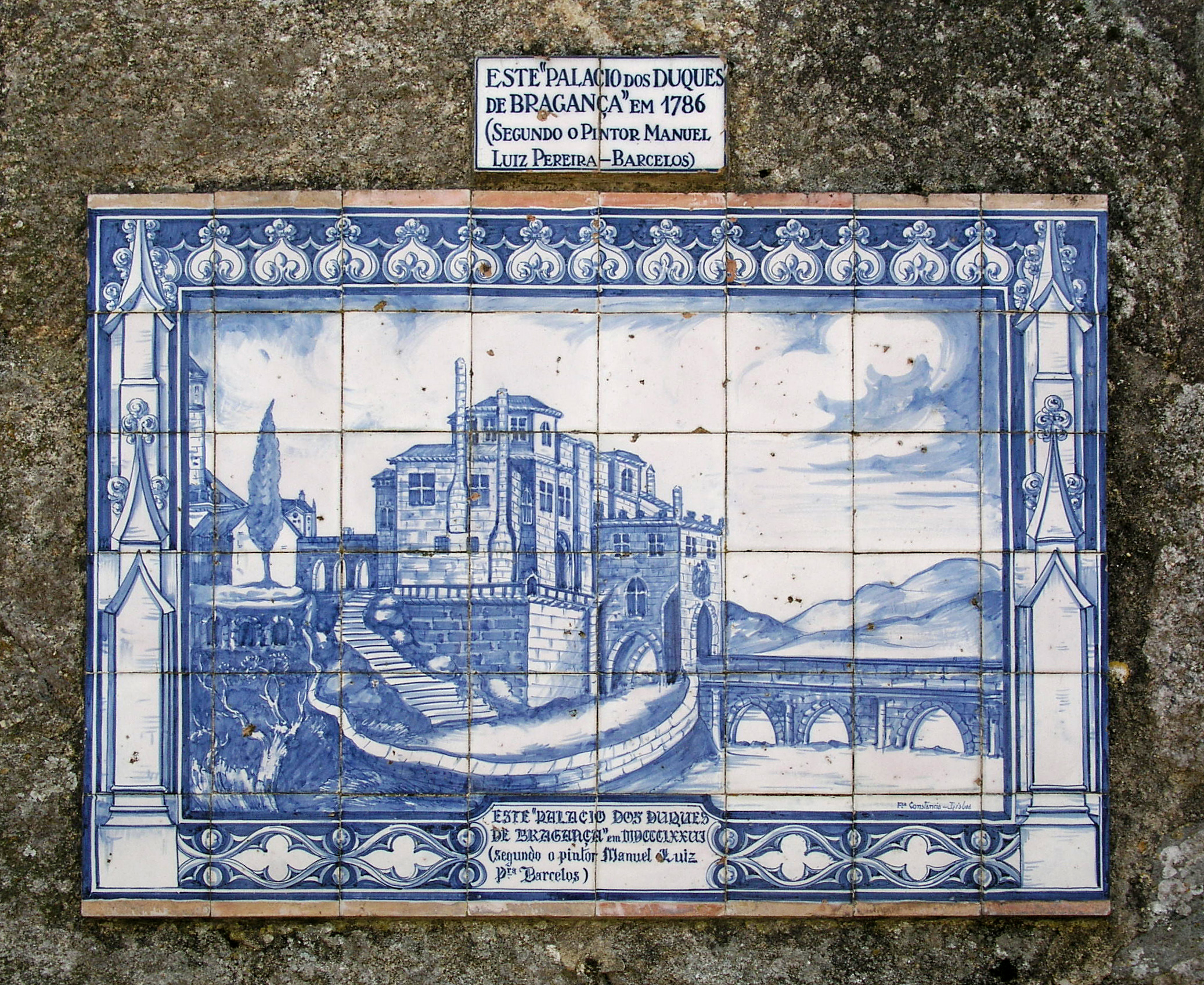 Paço de Condes, Barcelos, Portugal. Tiles on wall, with info plate